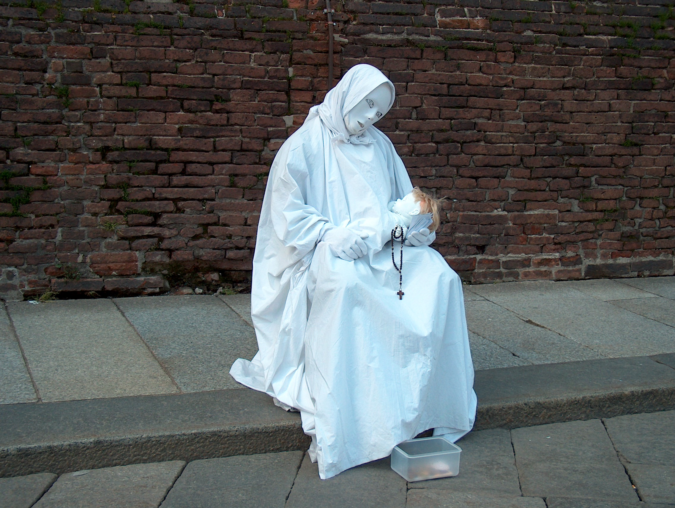 A Living Statue in Bologna, Italy